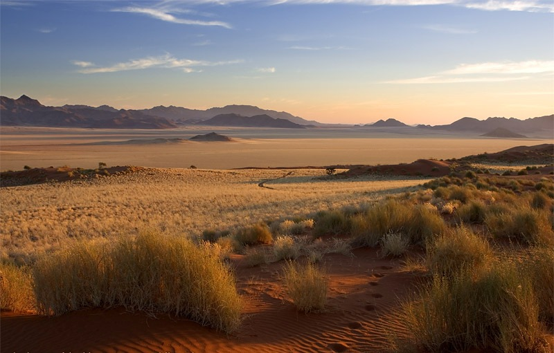 Sunset over the Namibian winter landscape; a westward view over the NamibRand private nature reserve from Wolwedans Dune Camp. Chowagas Mountain is seen 25km away to the left, and Bushman Hill 20km away to the right. On the horizon the pale outline of another inselberg, Guinassib, at 50km in the midst of the Namib Naukluft.